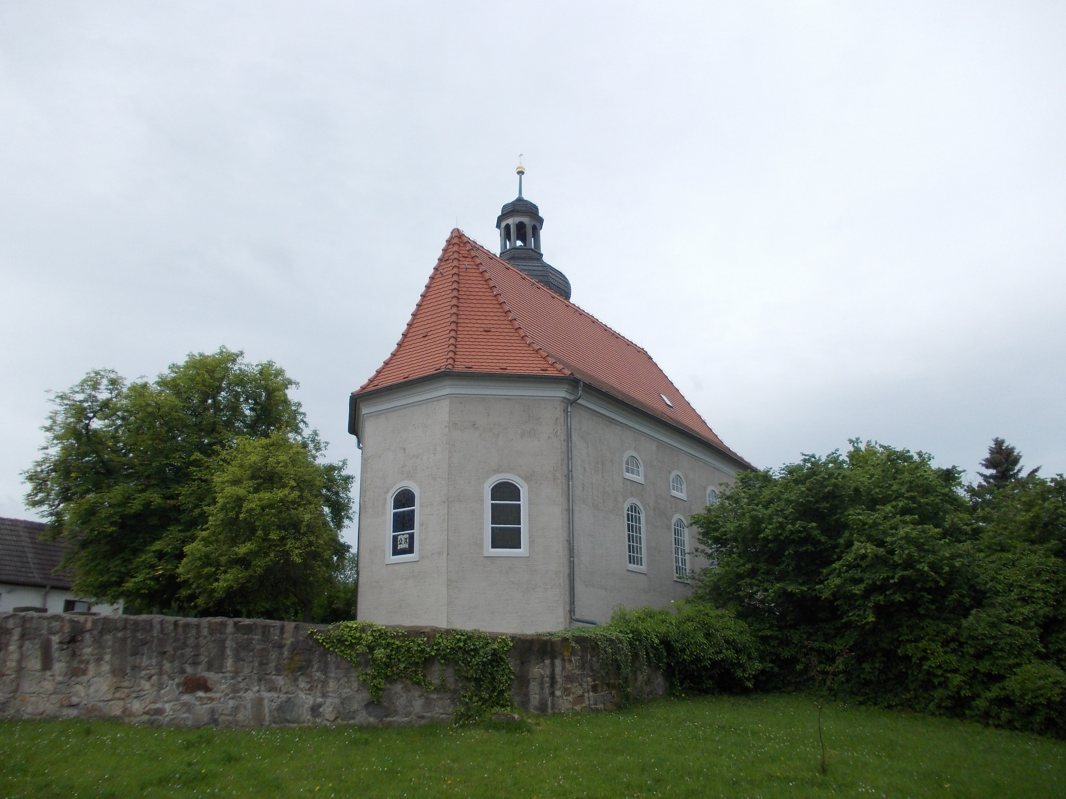 Saint Mary's church in Oberlödla (Lödla, district of Altenburger Land, Thuringia)